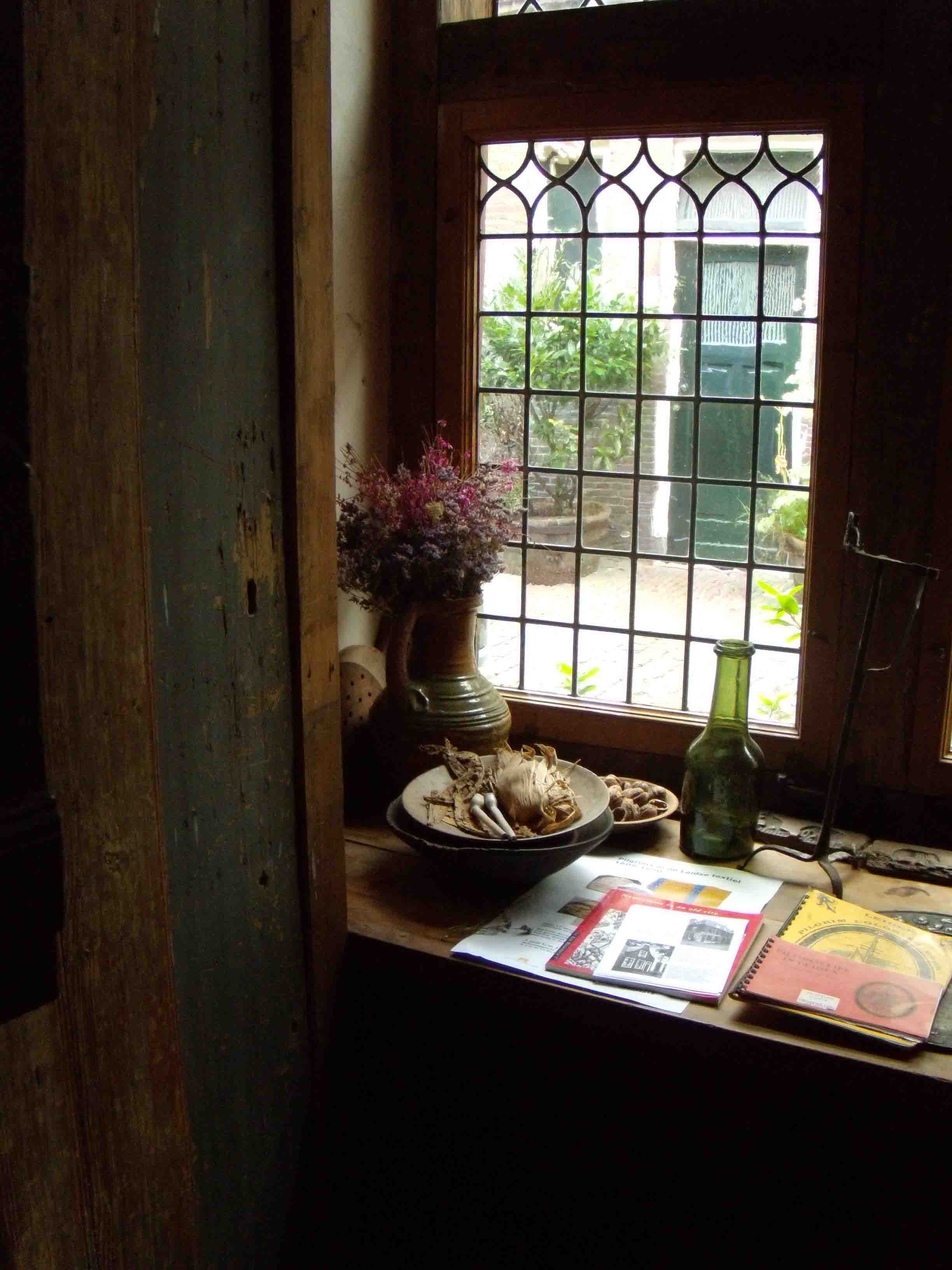 Leiden_American_Pilgrim_Museum